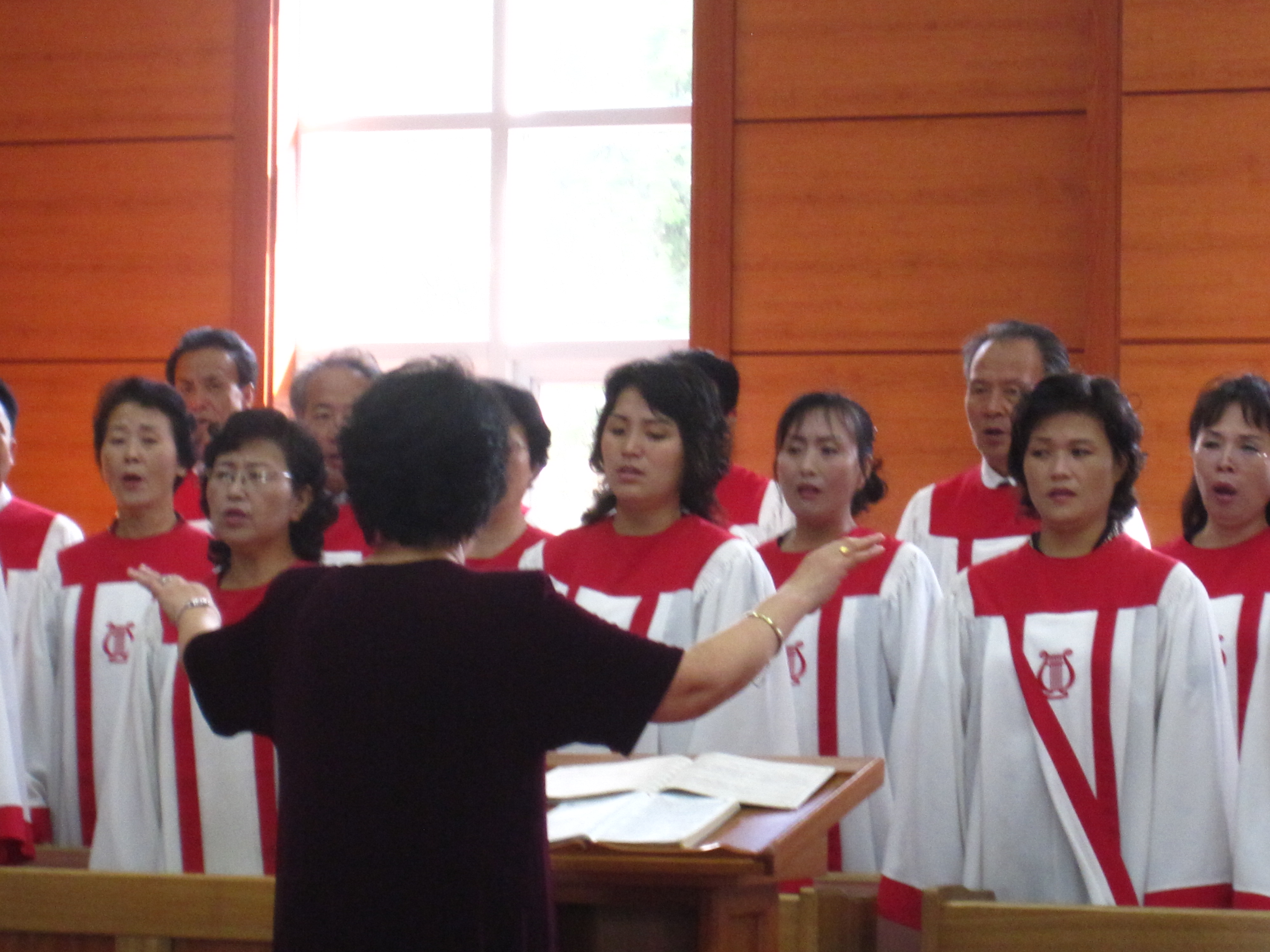 North Korea DPRK